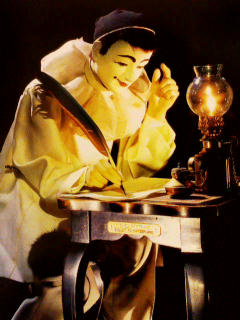 The Automata "Pierrot écrivain" is on display in the Nosaka Automata Museum, Ito city, Shizuoka prefecture, Japan.